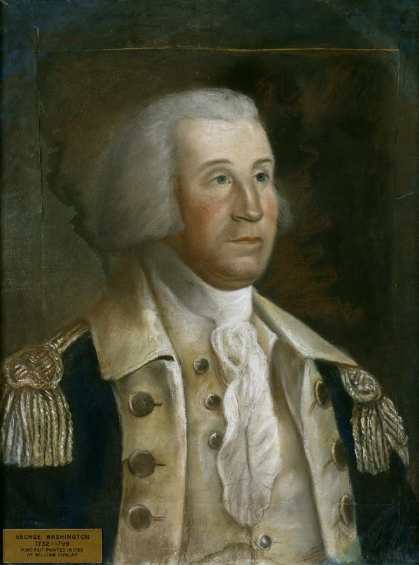 The first known portrait of General George Washington by William Dunlap. Unsigned.